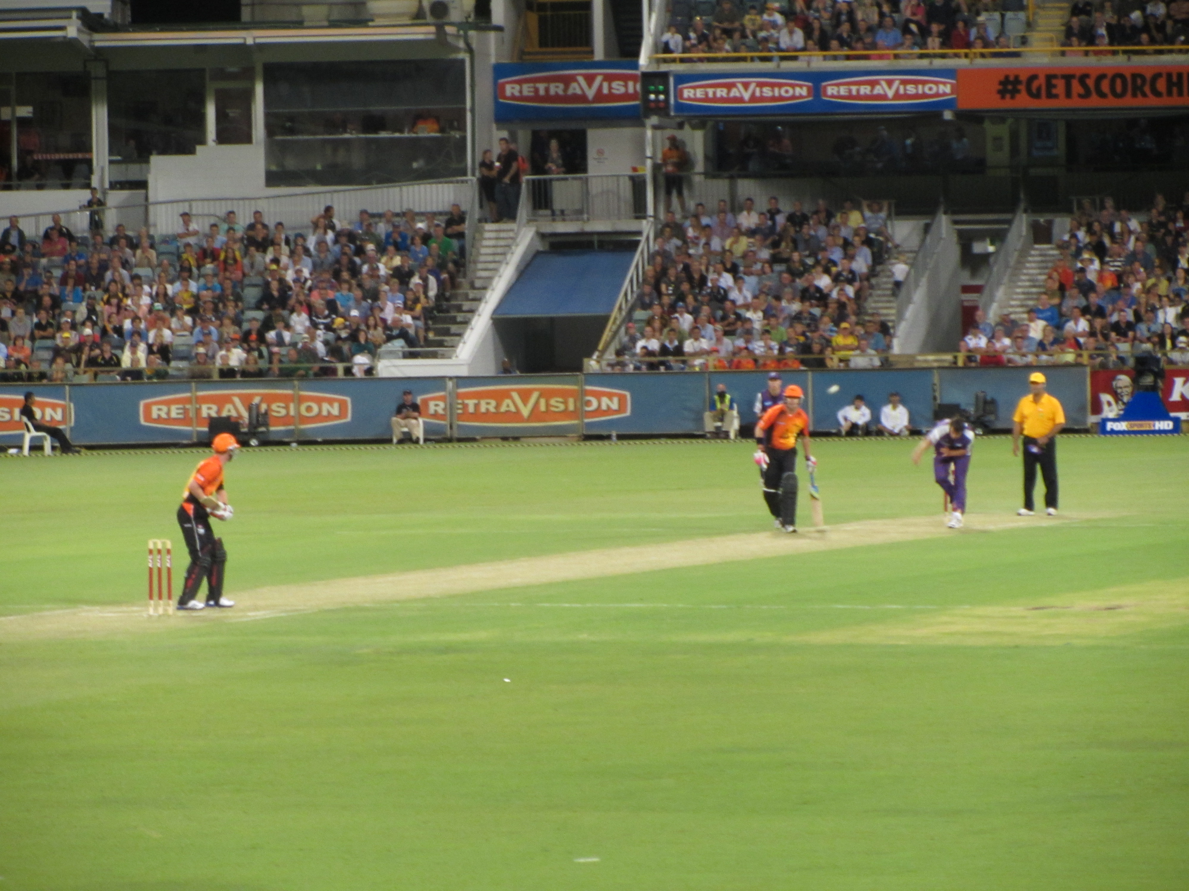 Perth Scorchers taking on Hobart Hurricanes at the WACA during BBL01 (2011)